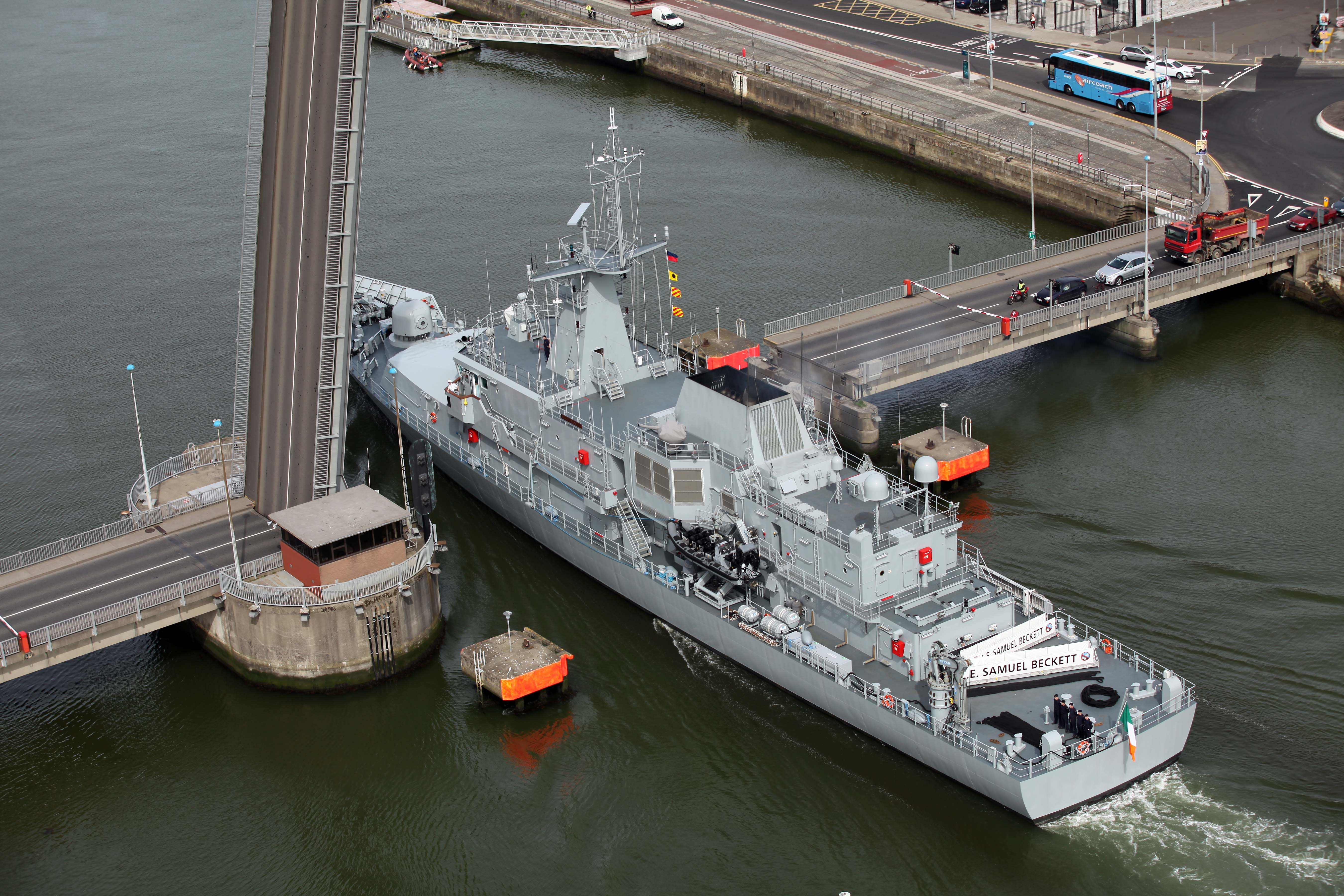 Naming and Commissioning-LÉ Samuel Becket